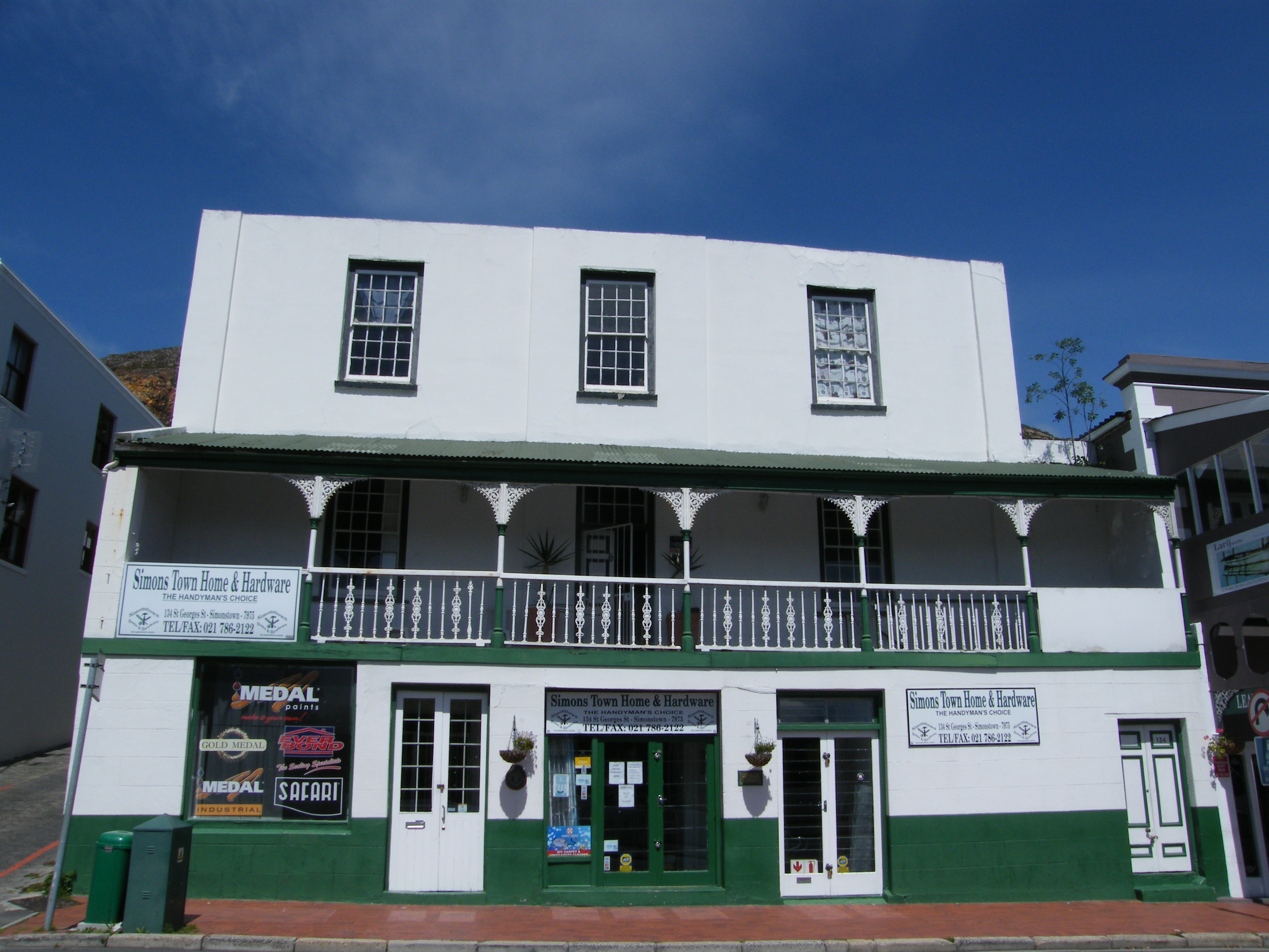 This media shows a South African Protected Site with SAHRA file reference 9/2/081/0060.